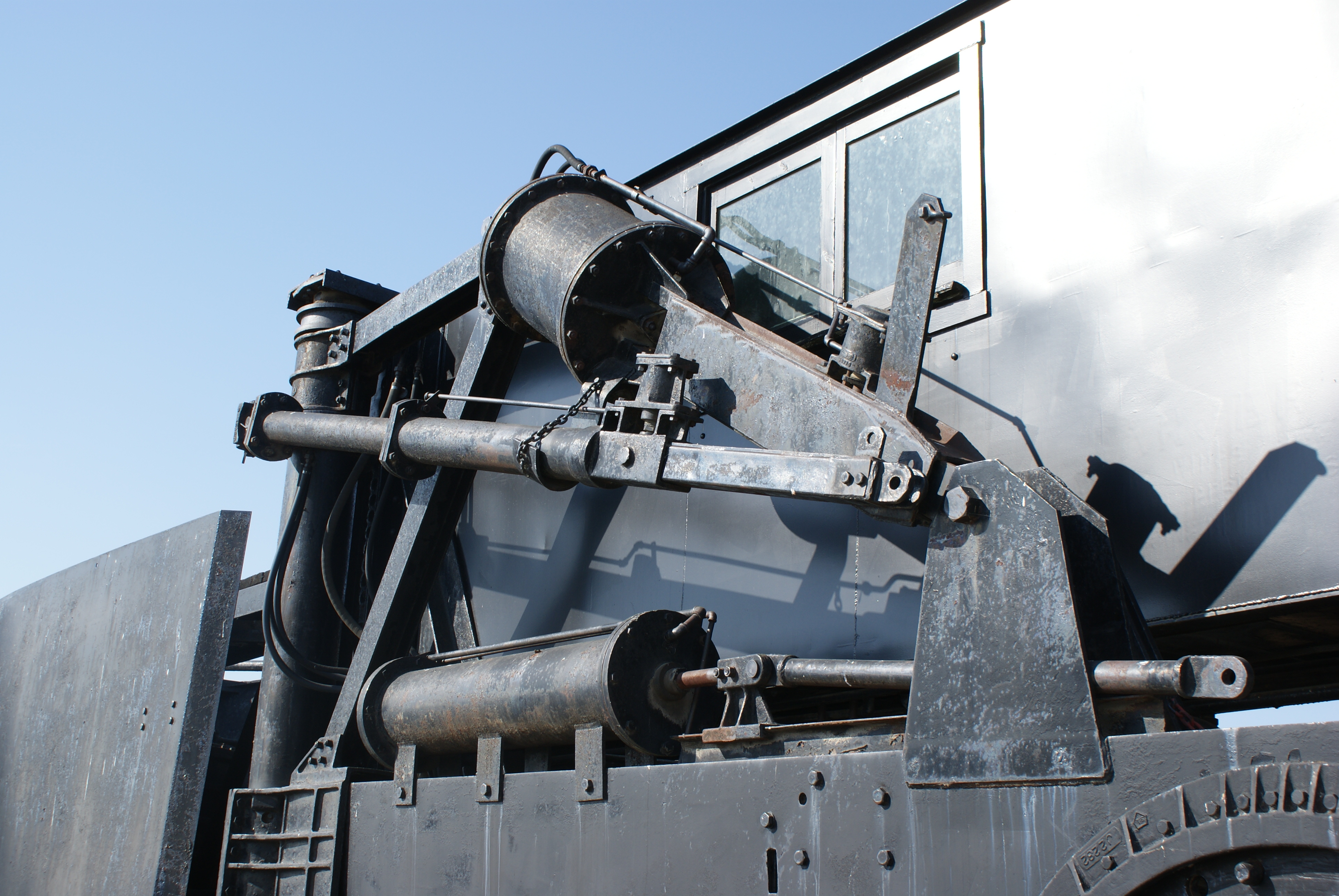 A Jordan Spreader which spread ballast, acts as snow plough, clean and dig ditches as well as trim embankments. This Jordan Spreader is preserved at the Saskatchewan Railway Museum. It had been used on the CPR line south of Moose Jaw. This is a picture of the pneumatics used to open and close the wings